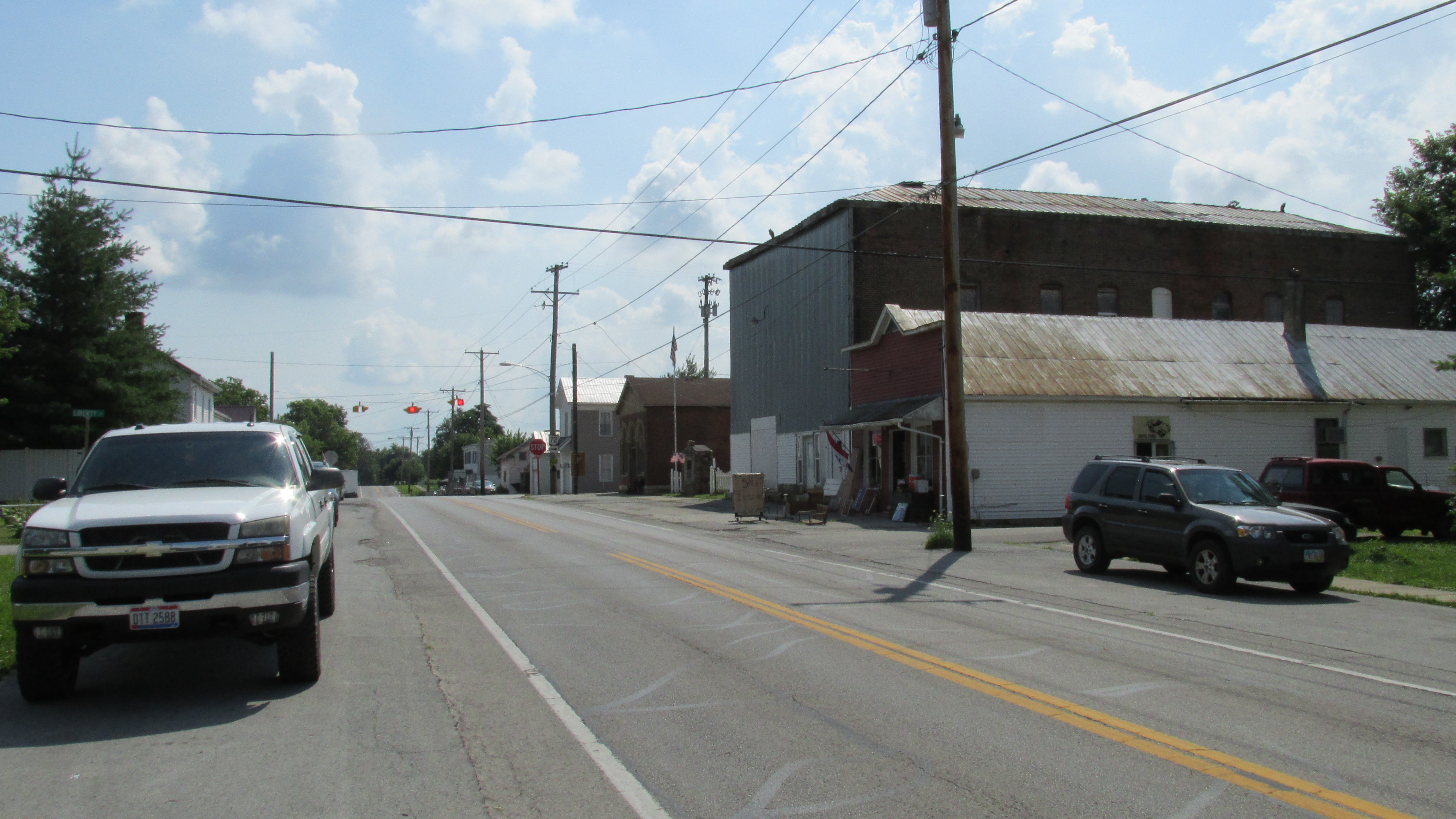 Looking east on Main Street (Ohio Highway 28) in Highland.